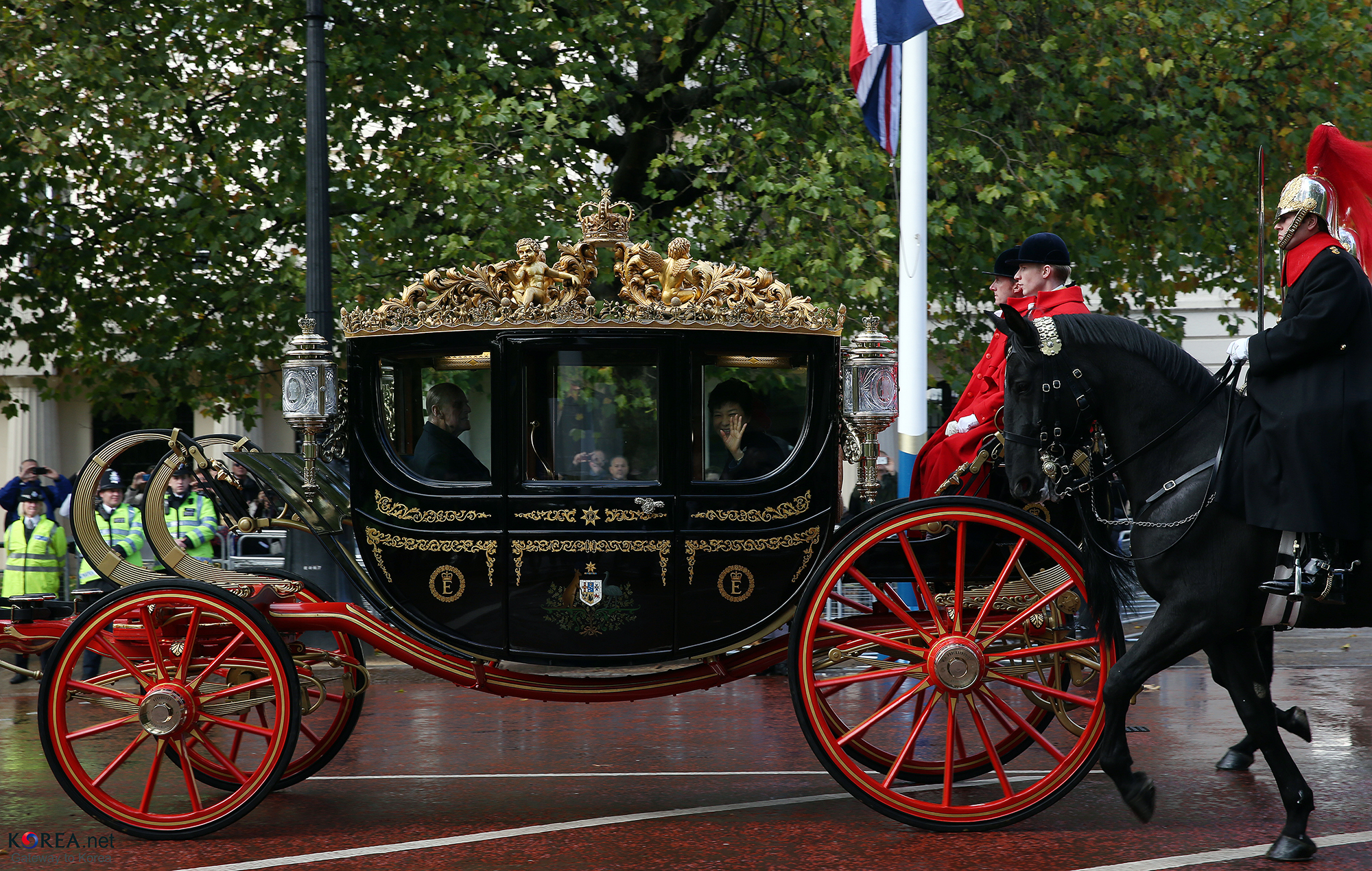 President Park Geun-hye on state visit to United Kingdom November 5, 2013 London, United Kingdom Ministry of Culture and Information Service Korean Culture and Information Service Jeon Han 영국 국빈 방문 공식환영식 2013-11-5 런던, 영국 문화체육관광부 해외문화홍보원 코리아넷 전한